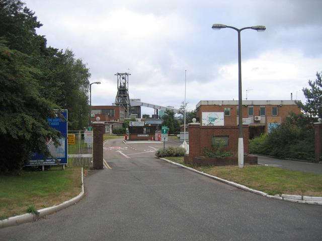 Entrance to Daw Mill Colliery. The main gateway to the colliery near the SW corner of the square.